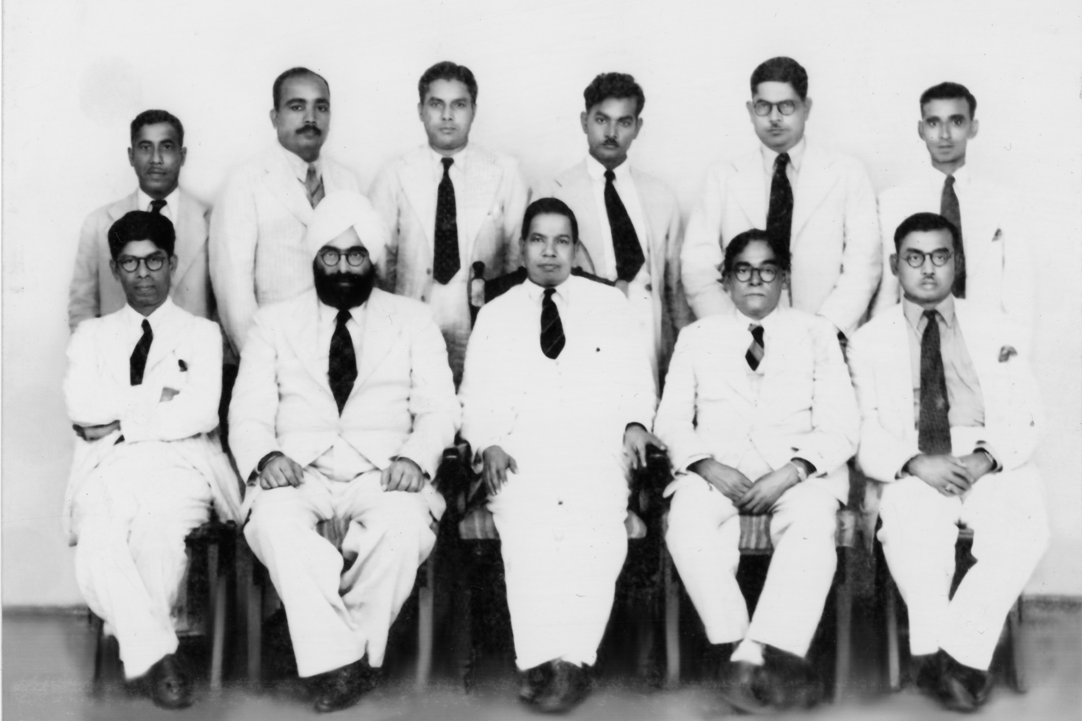 A Group Photo of OGSLA Management, Calcutta, India, 1946